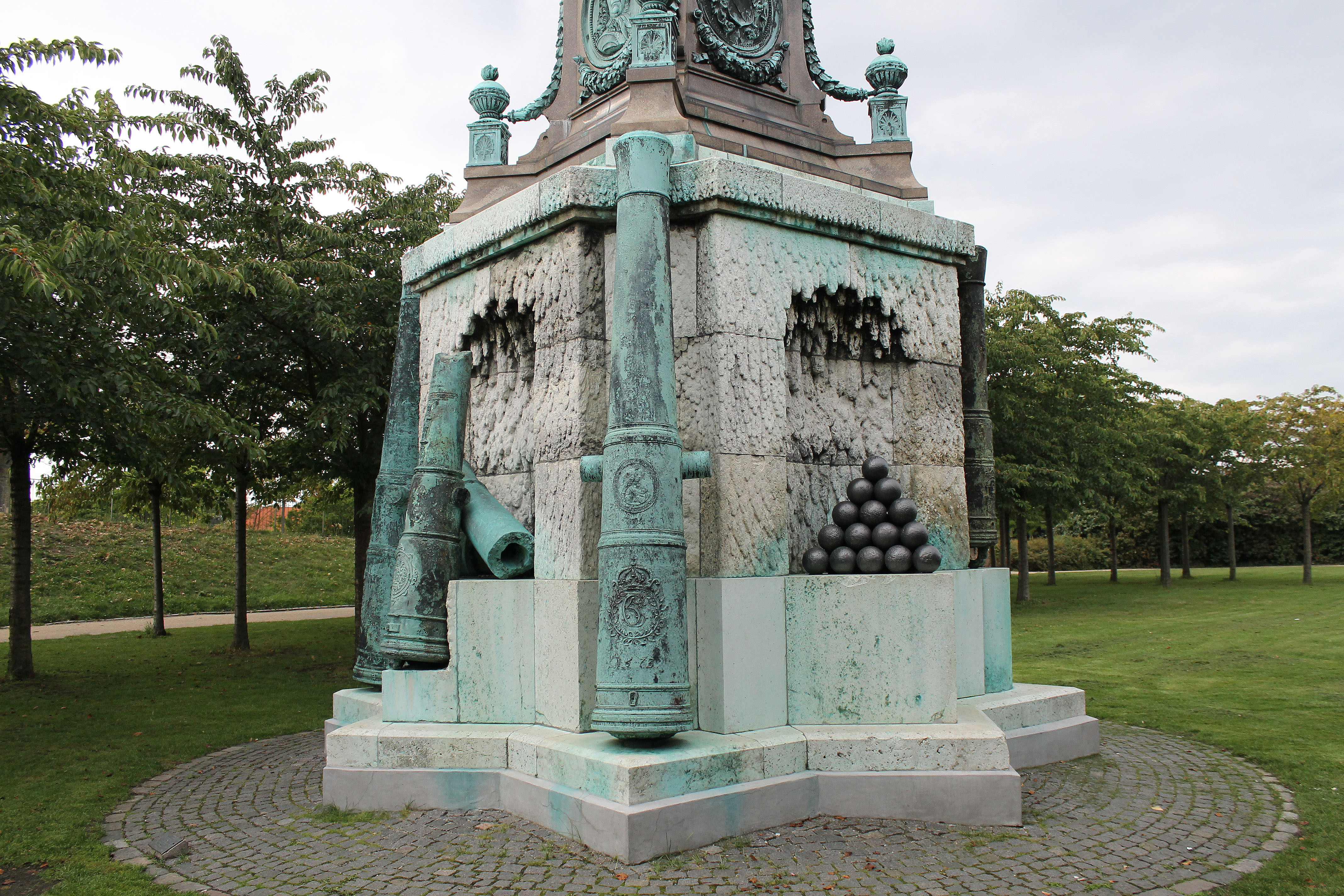 The base of the Ivar Huitfeldt Column in Copenhagen, Denmark